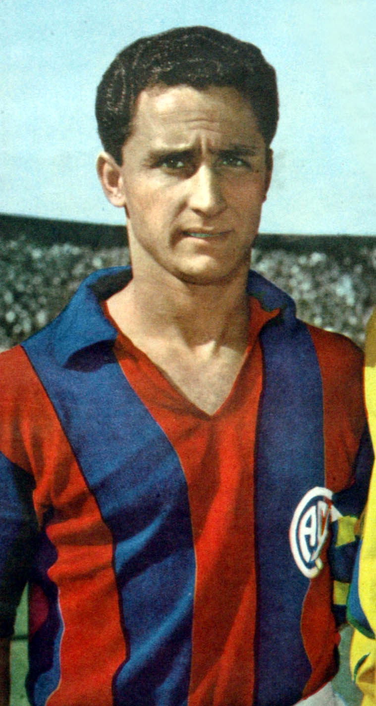 José Sanfilippo covered on El Gráfico magazine in 1962.